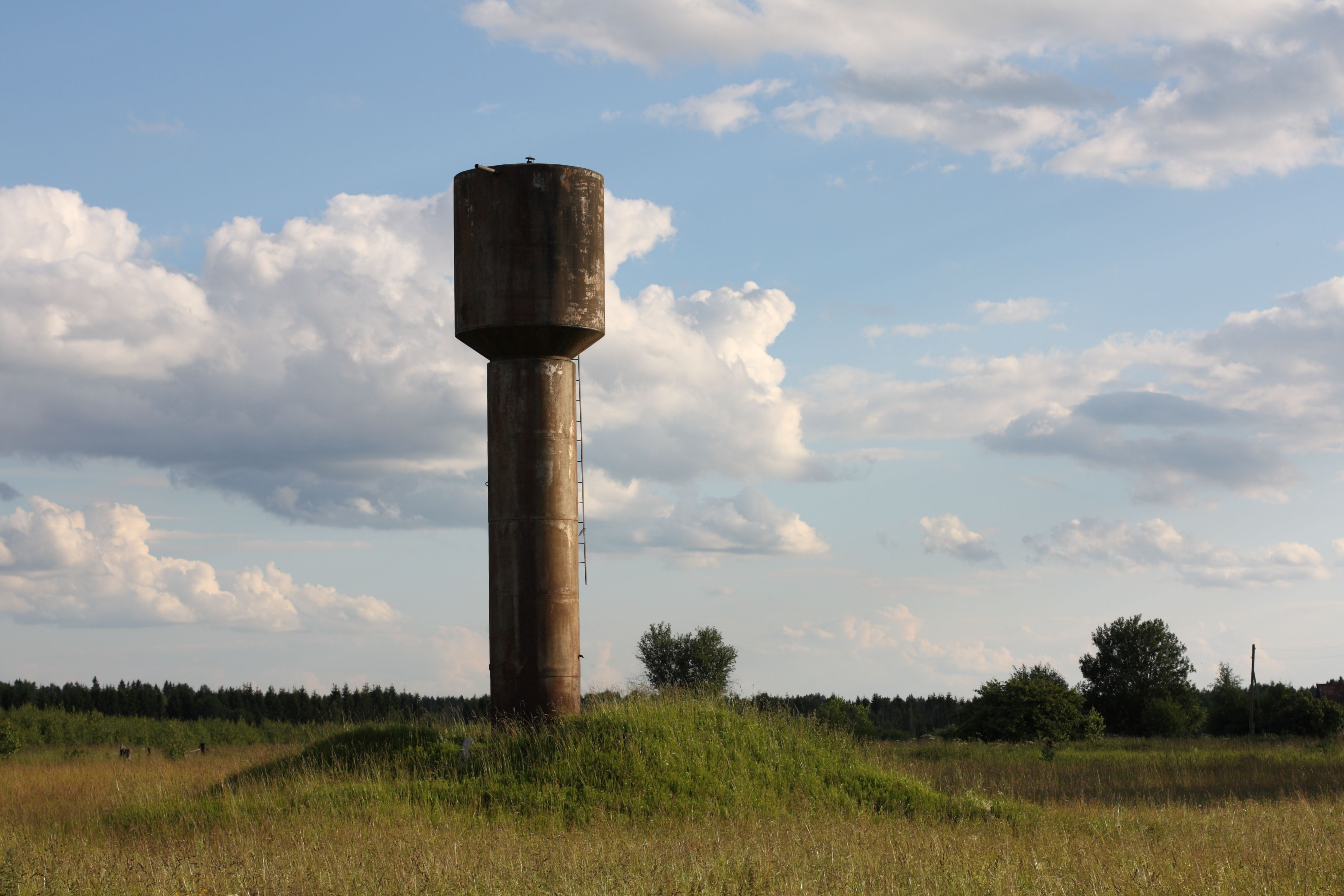 Village Lukino (Kuvshinovsky district of Tver Oblast, Russia)